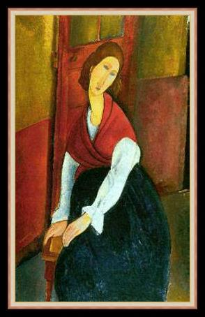 Jeanne Hebuterne in Red Shawl